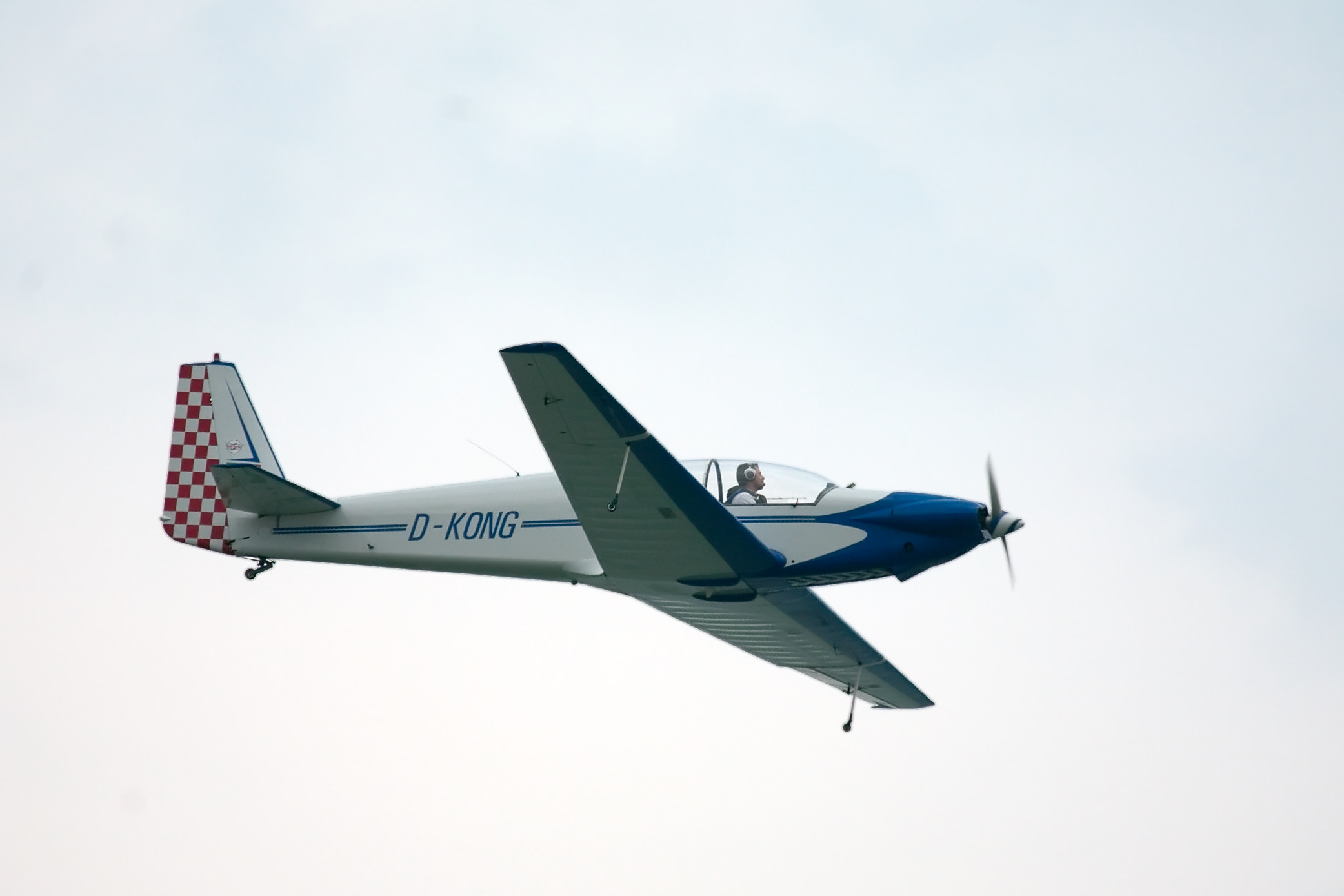 Fournier motorglider of team "Blue Voltige" during "Air Extreme" 29.08.2009 in Jesolo